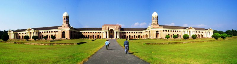 This is a panoramic view of F.R.I.,dehradun,captured by me